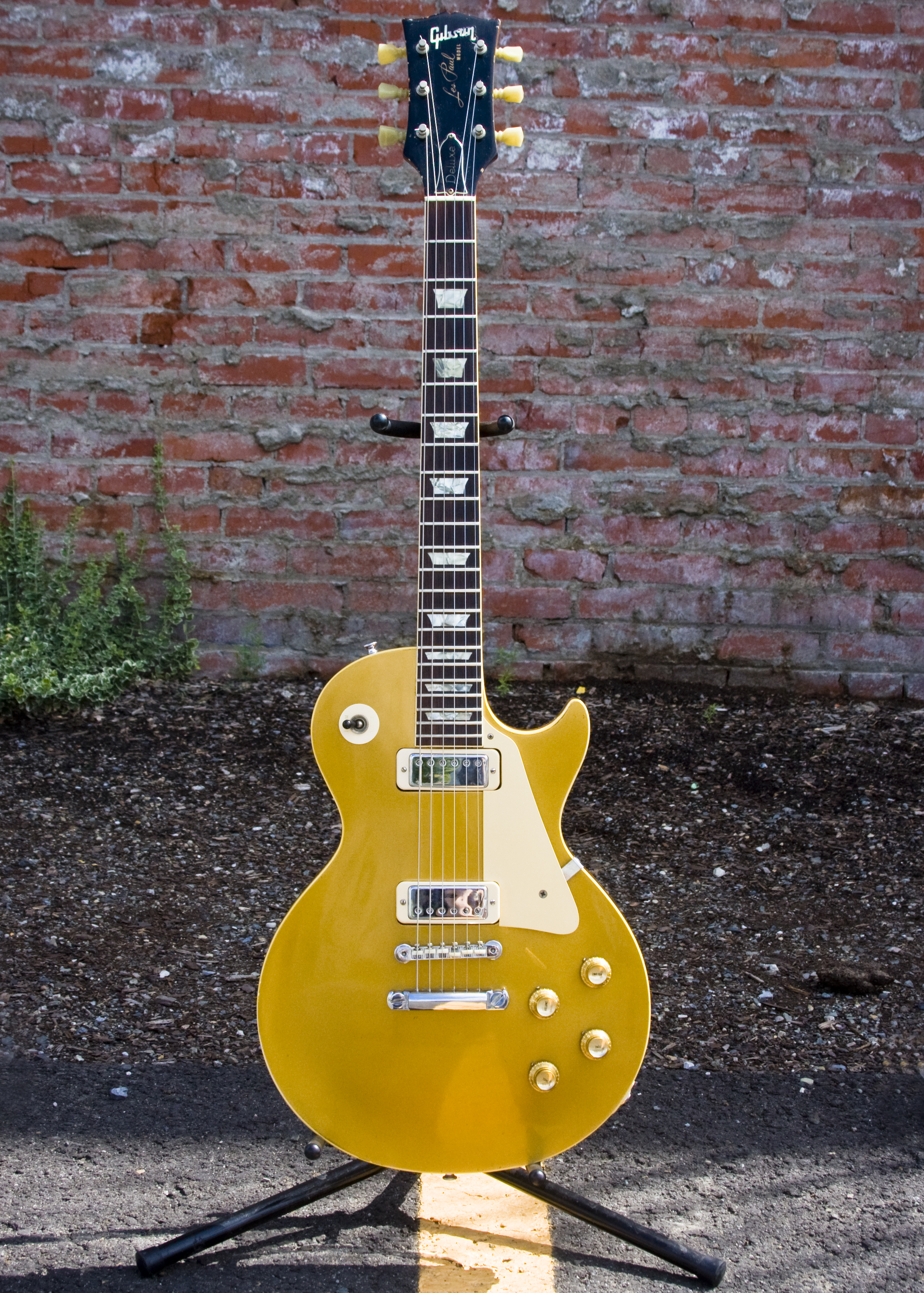 Gibson Les Paul Deluxe (S/N:897292, ca.1969 [1]) References ↑ Fjestad, Zachary R. (2007) "Gibson Electric Serialization" in Blue Book of Guitar Values (11th ed.), Blue Book Publications, Inc. ASIN B001TJXCFQ. Also excerpted on .